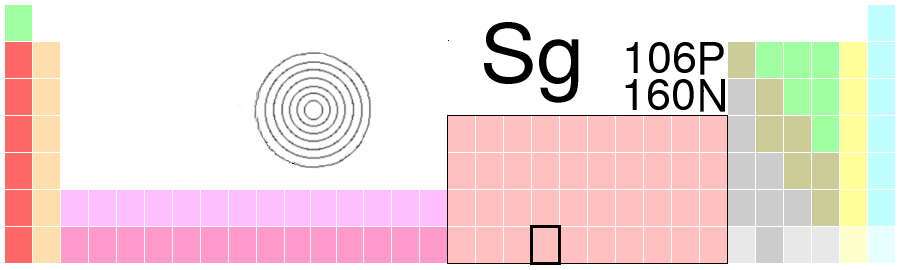 source: image produite pour Wikipédia par leurs auteurs auteurs: Daniel Mayer (Maveric149) and/or Arnaud Gaillard (Greatpatton) licence